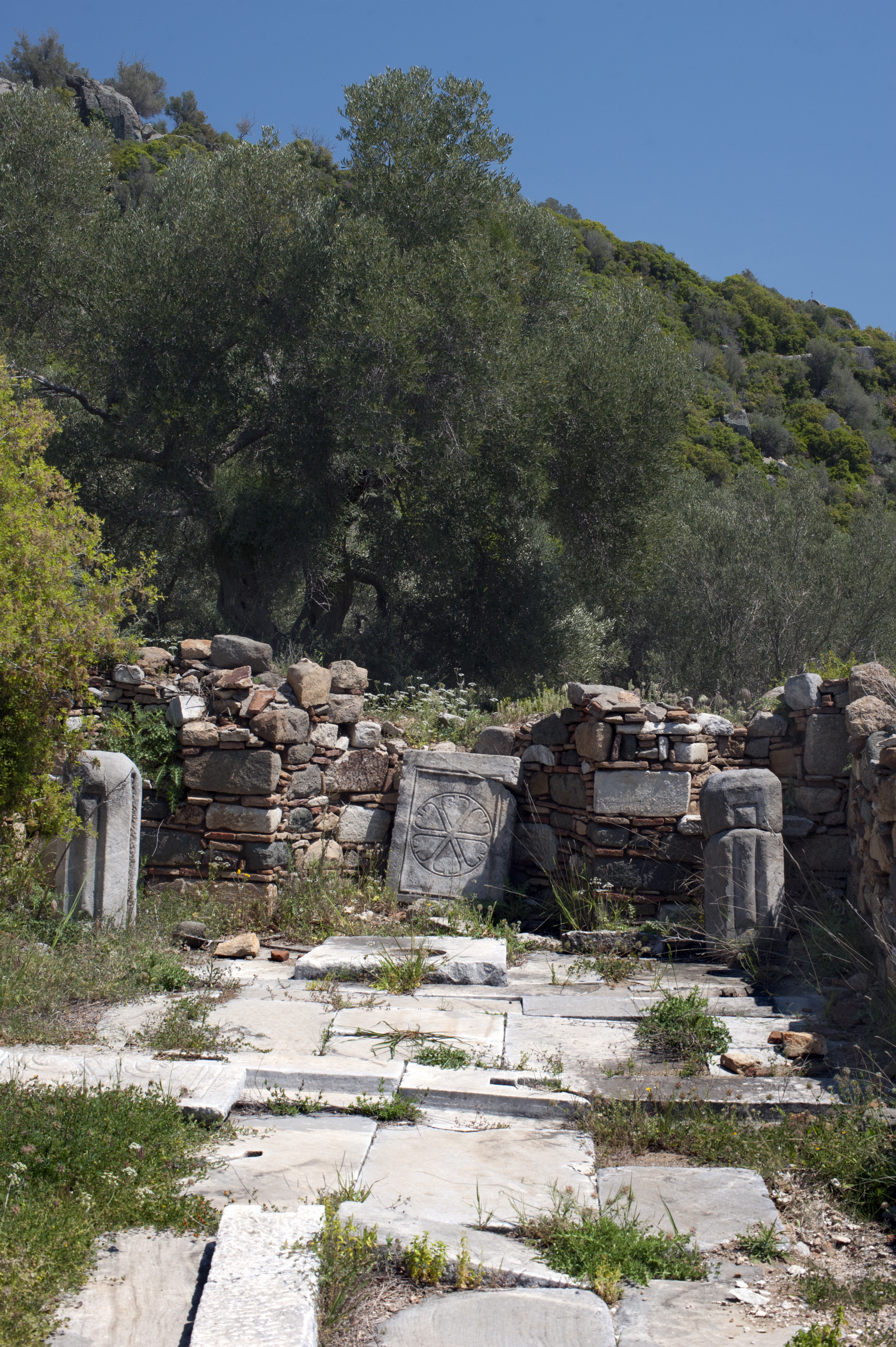 Archeological place of Sinaksi (Paleochristianic church), Maronia, Thrace, Greece.